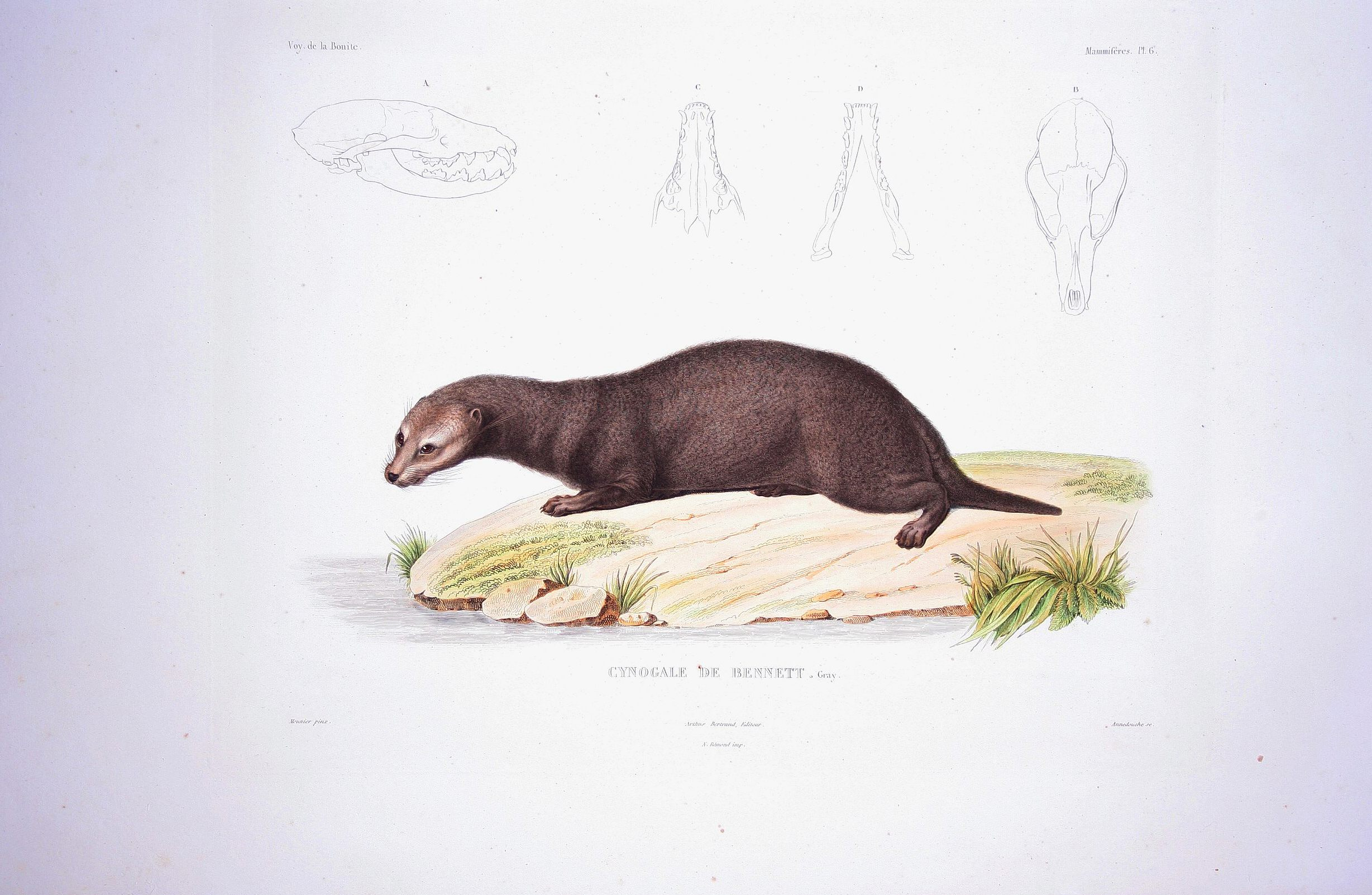 Zoology (mammals)